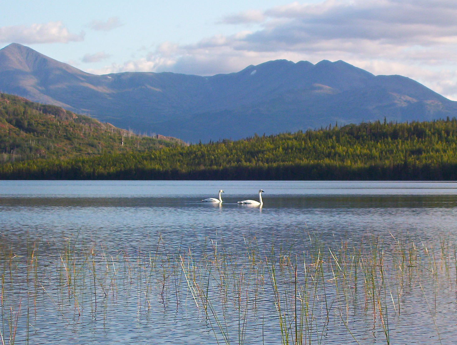 Trumpeter Swans on Lower Ohmer Lake, Kenai National Wildlife Refuge, Alaska